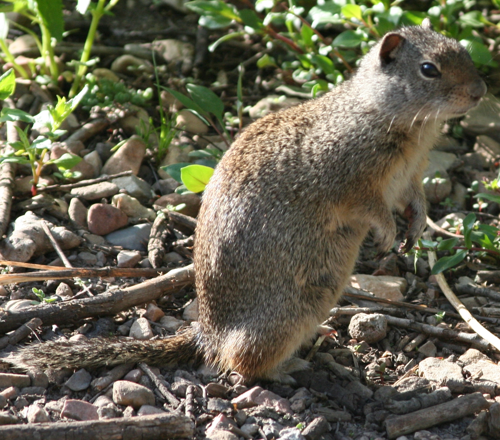 A picture of a Uinta ground squirrel on Mt. Timpanogos